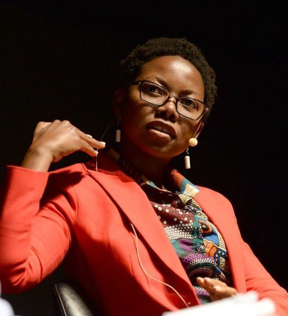 NoViolet Bulawayo at Melbourne, Australia